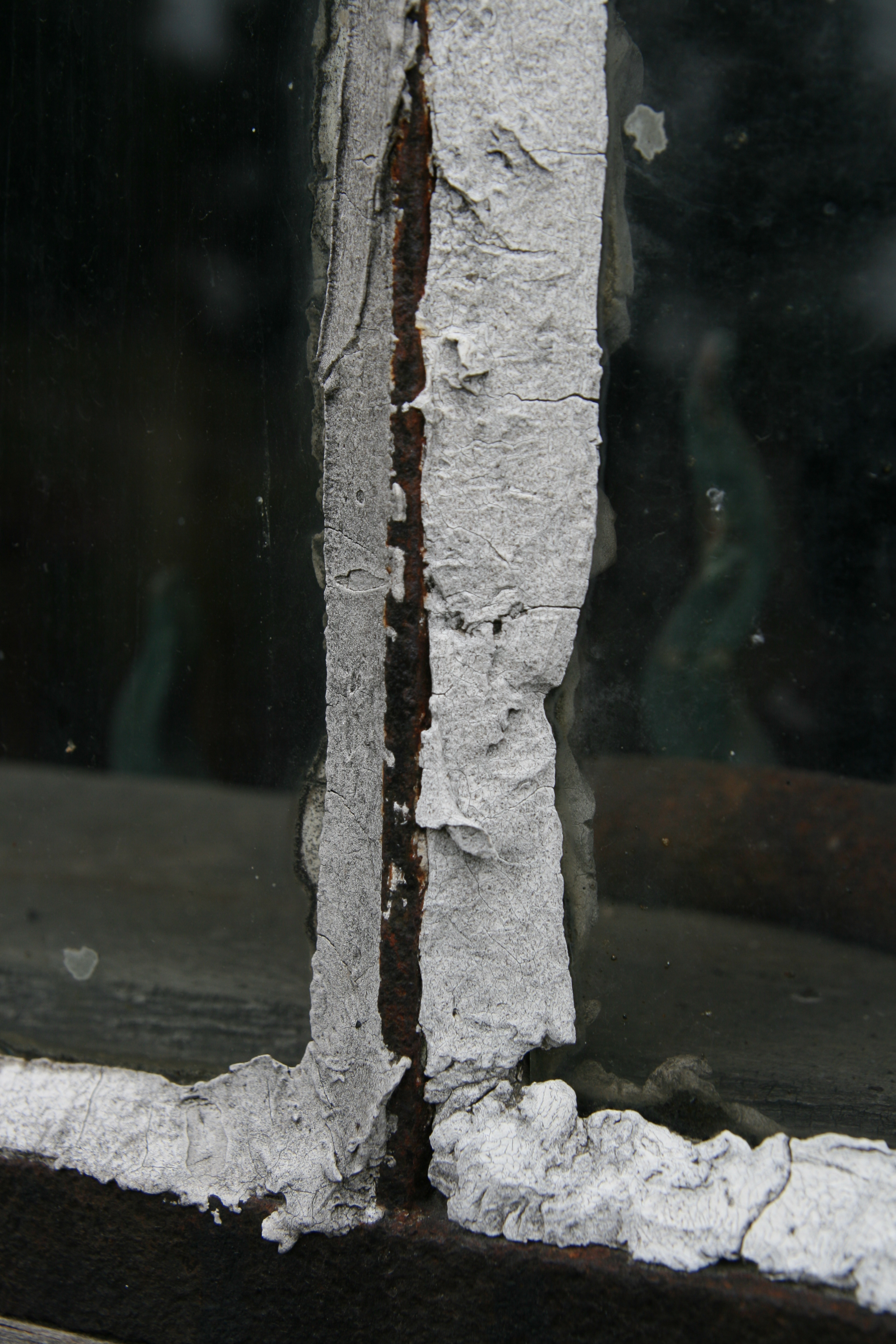 Putty on an old farmhouse's window in the Lindlar Open Air Museum